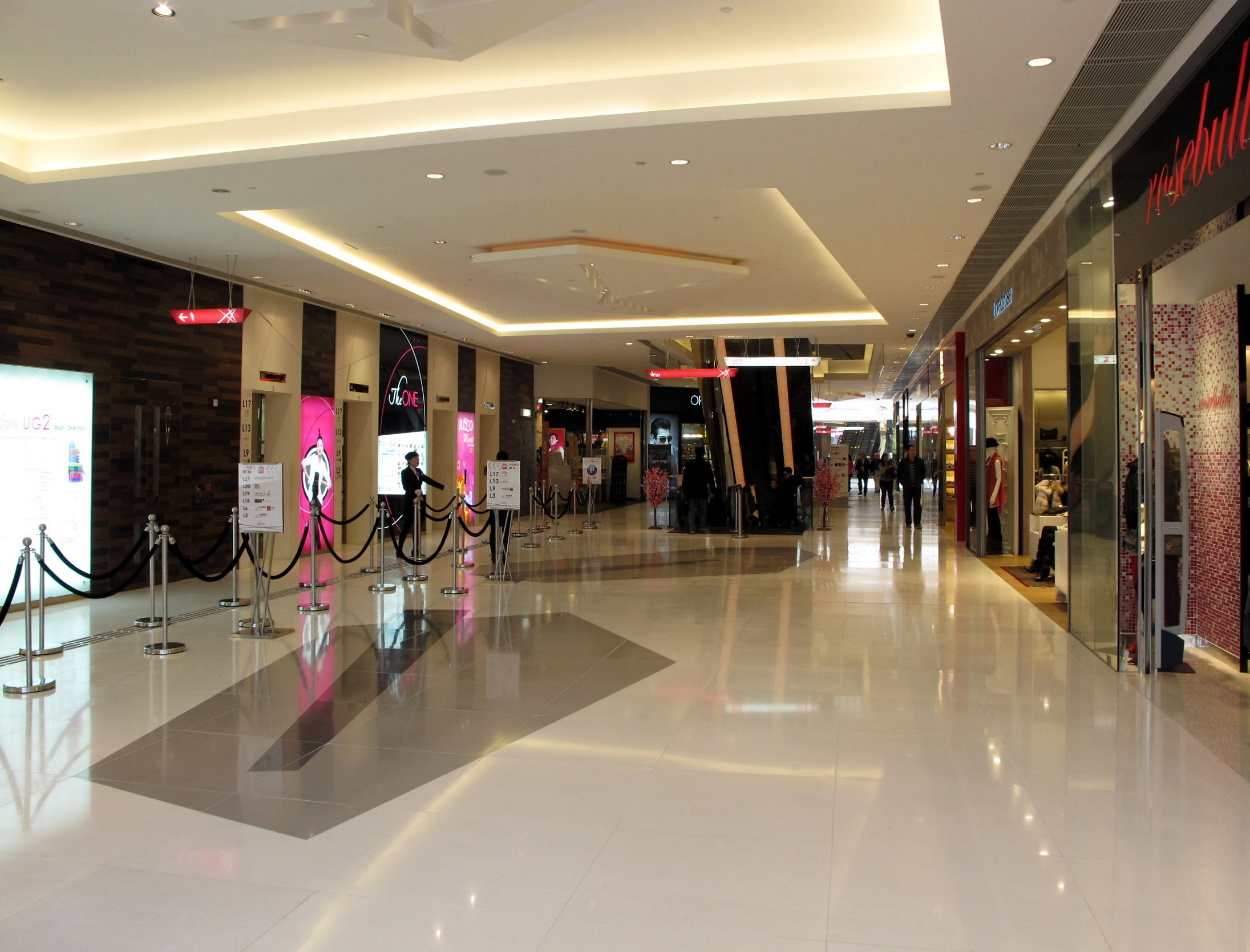 The ONE UG2 Liftlobby 位於UG2層的升降機大堂